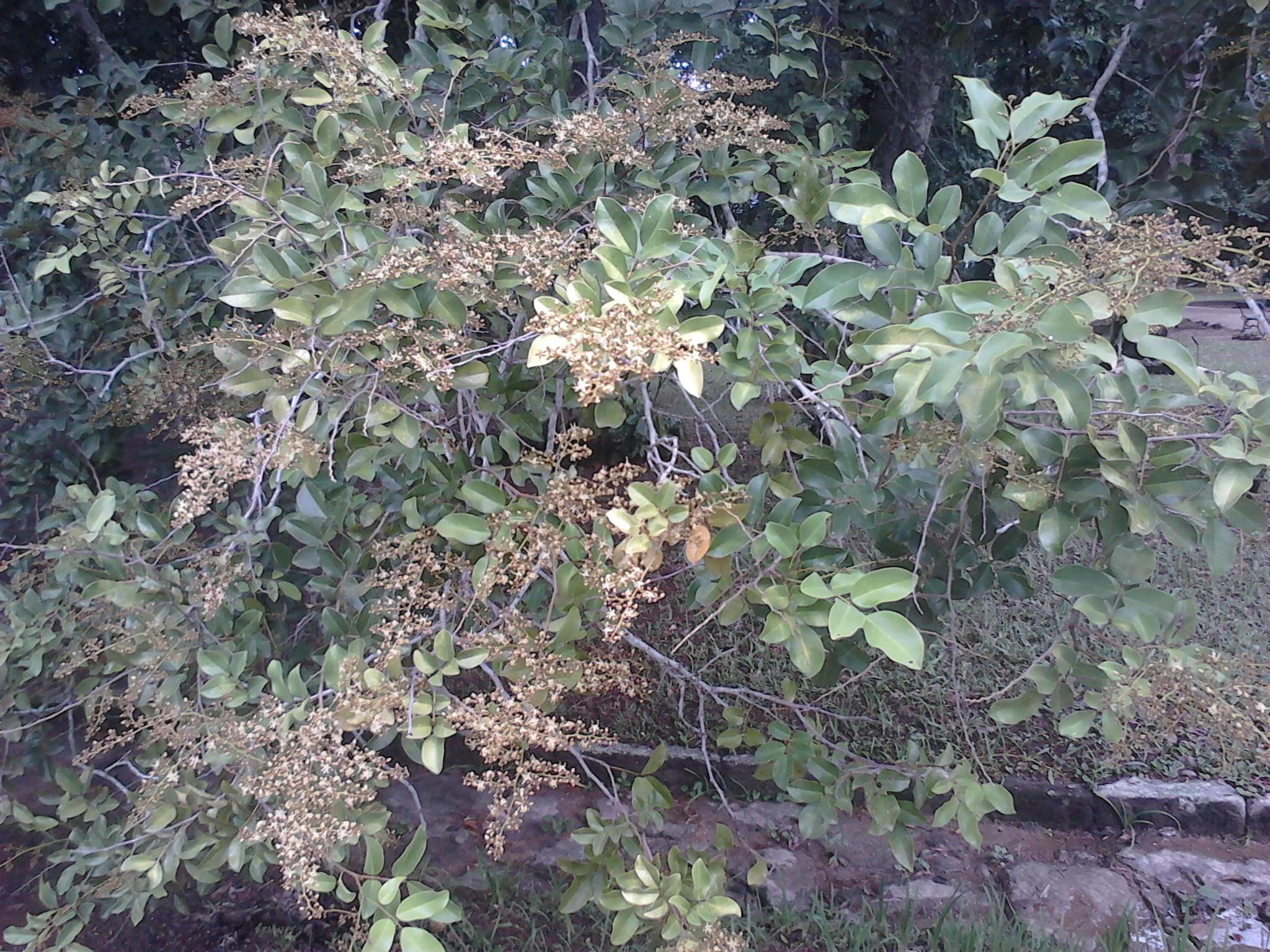 Dialium guineense in Jardim Botânico do Rio de Janeiro